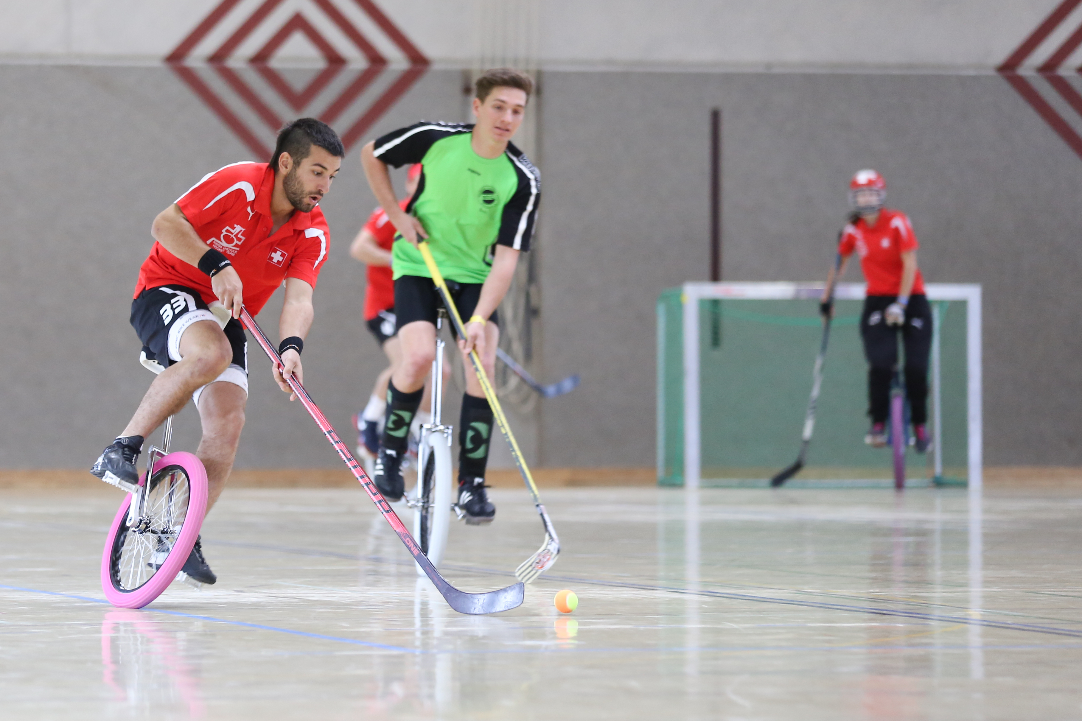 Unicycle hockey players at Eurocycle 2013, Langenthal, Switzerland